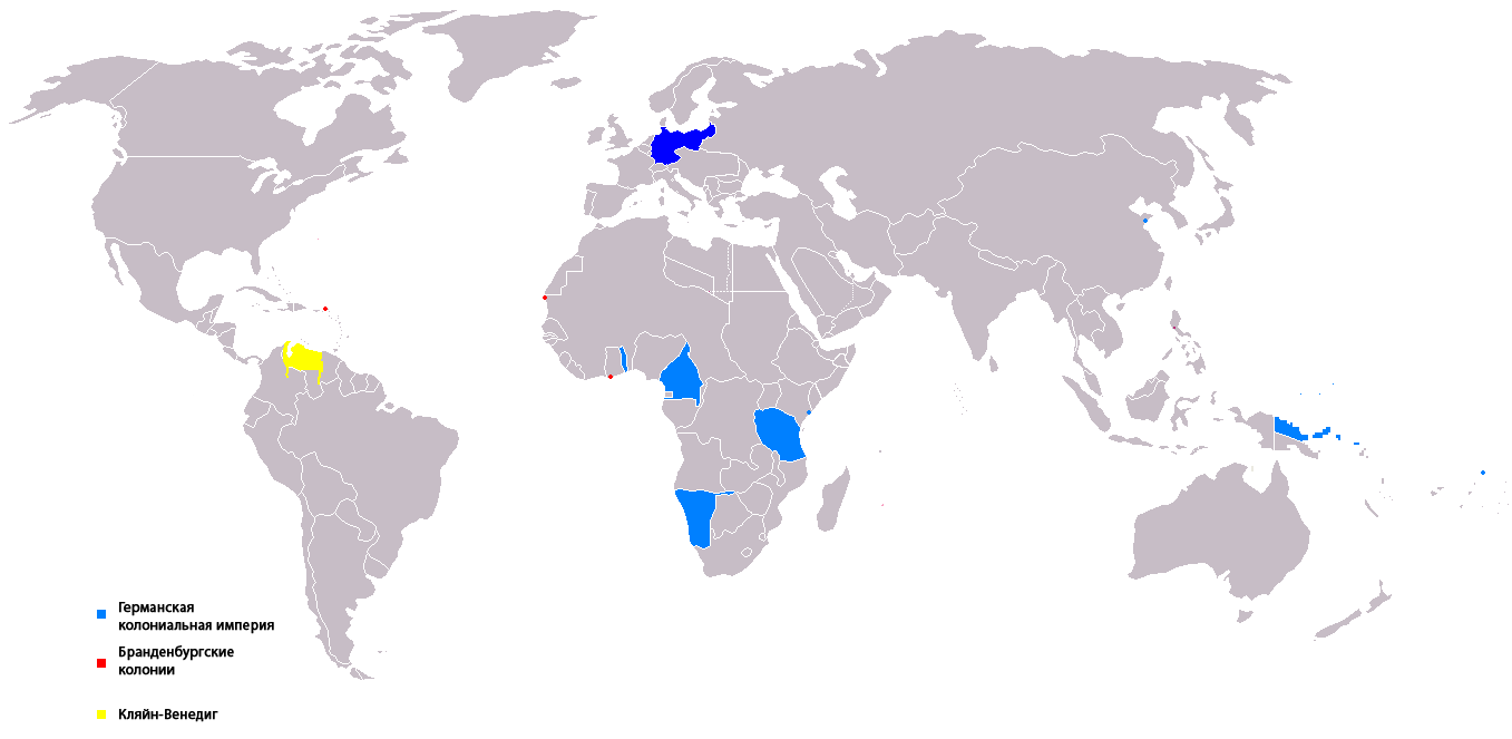 Map of the German Empire with colonies (russian)